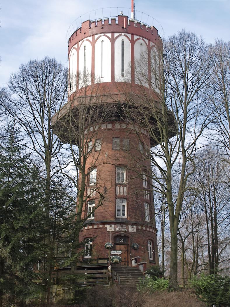 Hamburg-Lohbrügge, Germany, water tower, photo 2010